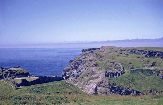 Tintagel Head, Tintagel, Cornwall taken 1967